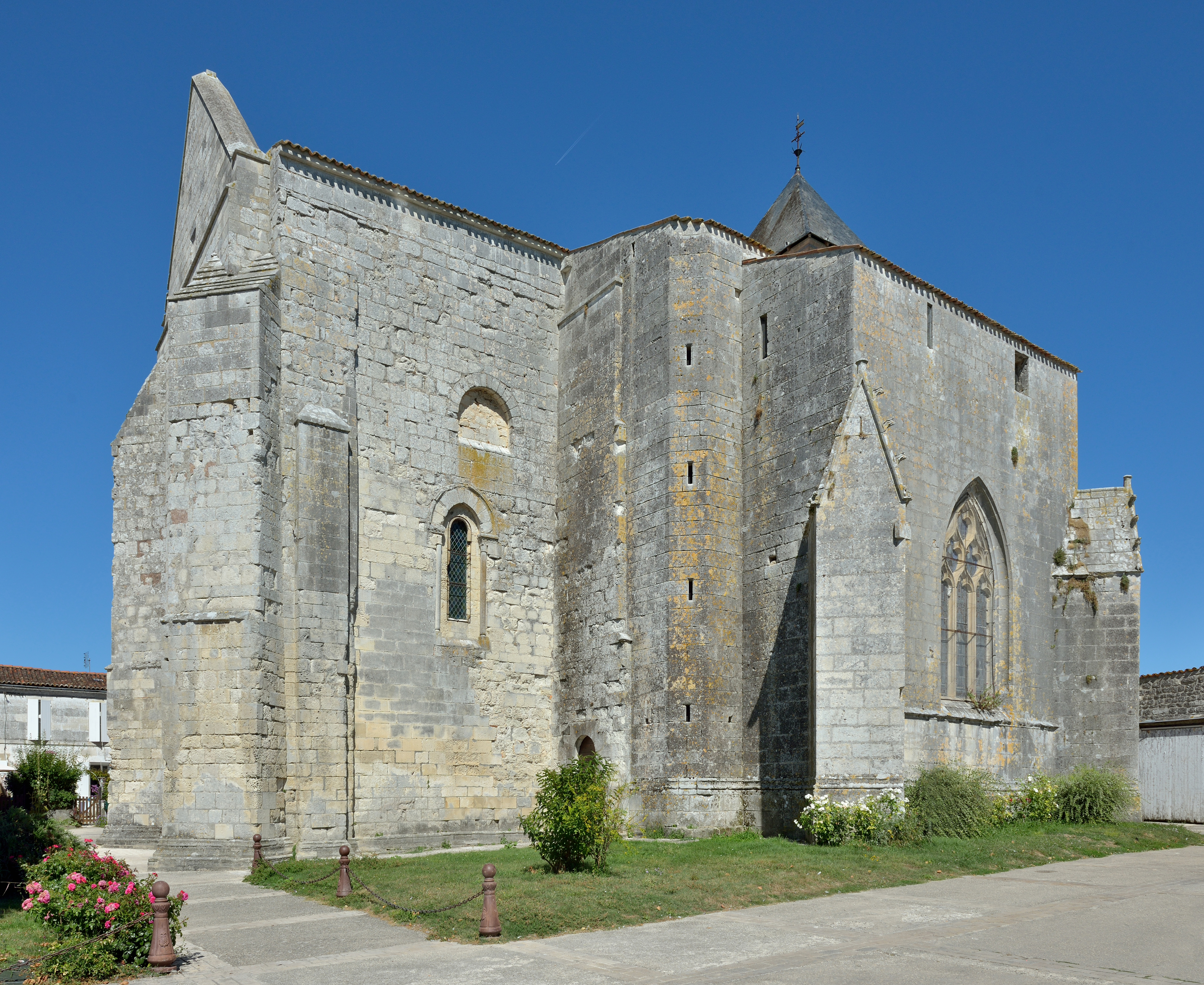 Saint-Pierre church in Chaniers in France